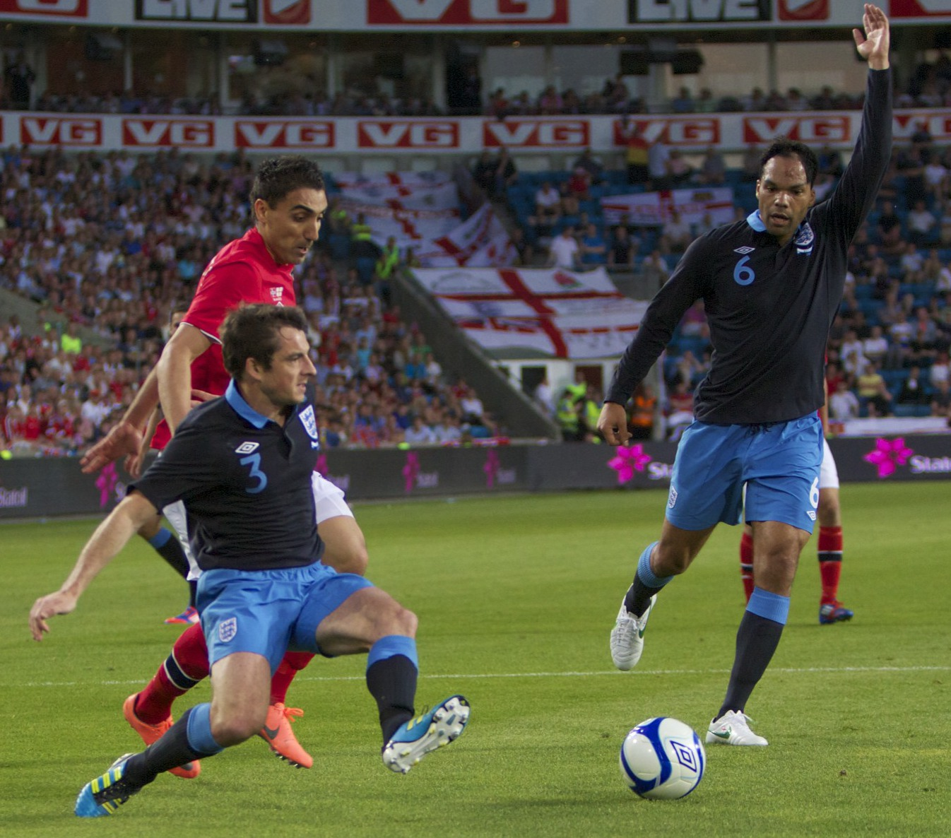 Mohammed Abdellaoue defended by Leigton Baines, Joleon Lescott raises his arm, Espen Ruud in the background). Norway vs England, 26 May 2012 at Ullevaal Stadion in Oslo, Norway.